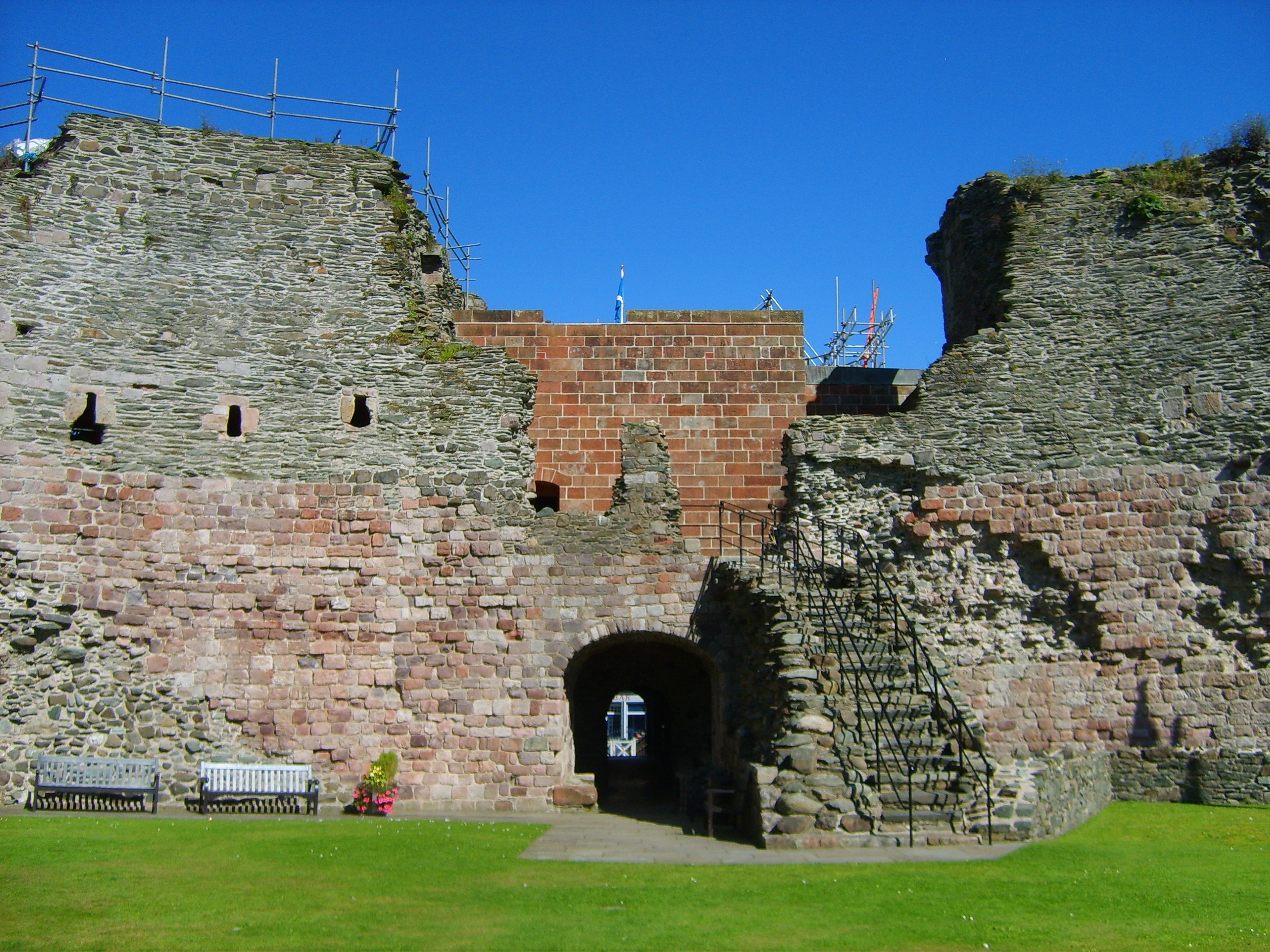 Rothesay Castle (13th century), Isle of Bute, Scotland.